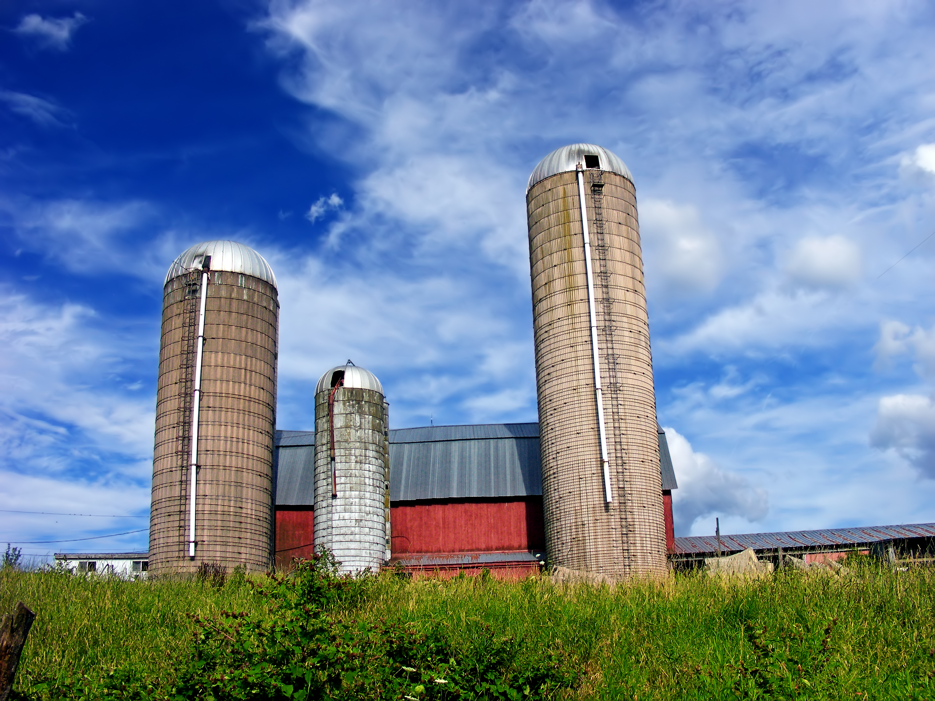 Farmstead, Allegany Township, Potter County.